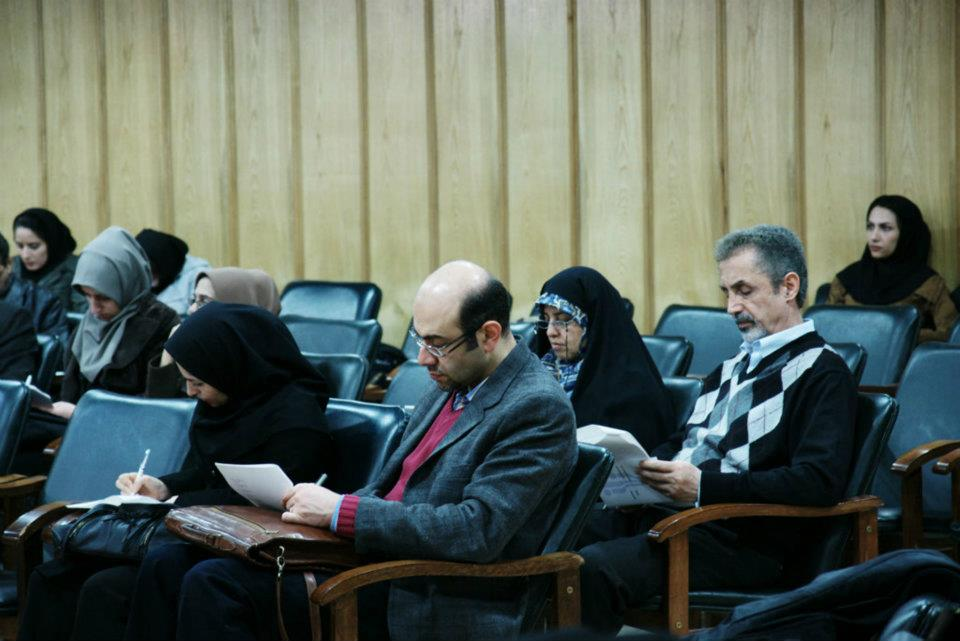 Syntax Conference in Tehran